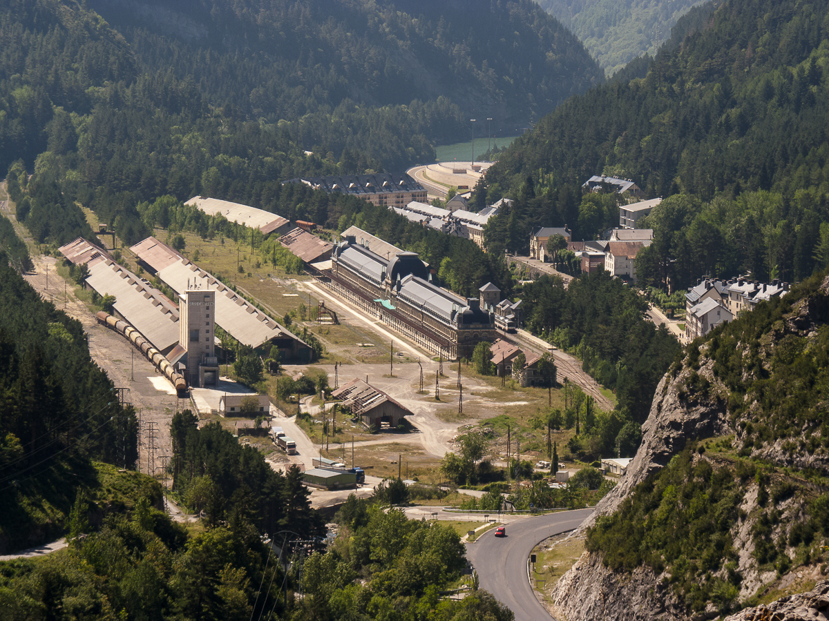 Valle del Aragón This is a photography of a Special Area of Conservation in Spain with the ID: ES2410017. Natura2000 entry, EEA entry